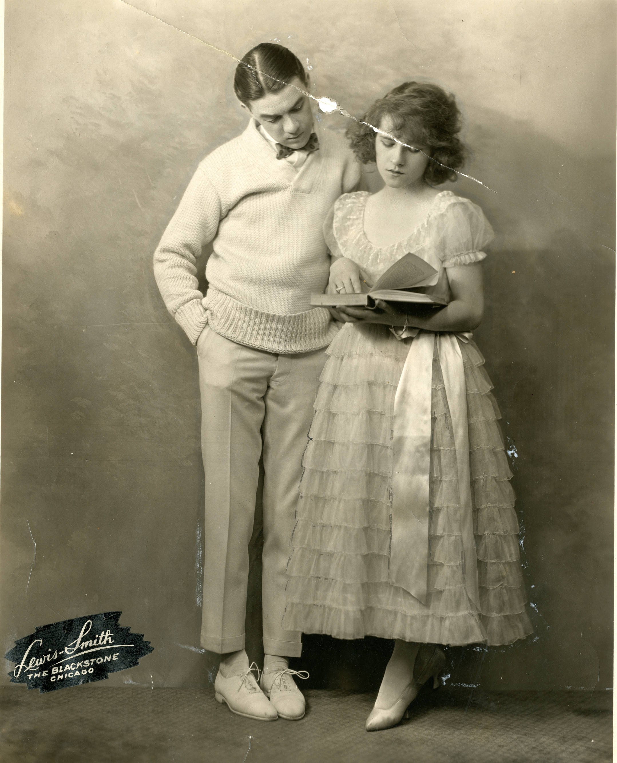 Gregory Kelly as Bobby Wheeler, and Ruth Gordon as Cora Wheller in the Stage comedy "Clarence." Date stamped June 17, 1920. Subjects: plays, actresses, actors